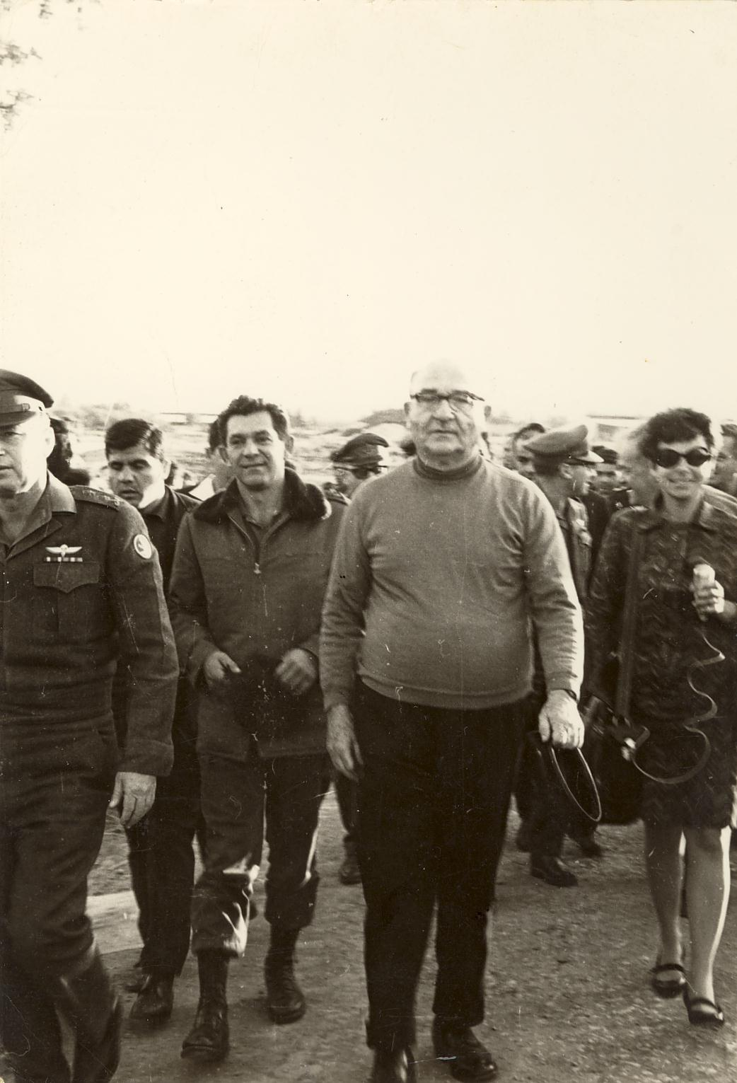 Left to right: Chief of Northern Command General David ("Dado") Elazar, Israeli Prime Minister Levi Eshkol, and IBA reporter Dalia Yairi, touring in Northern Israel